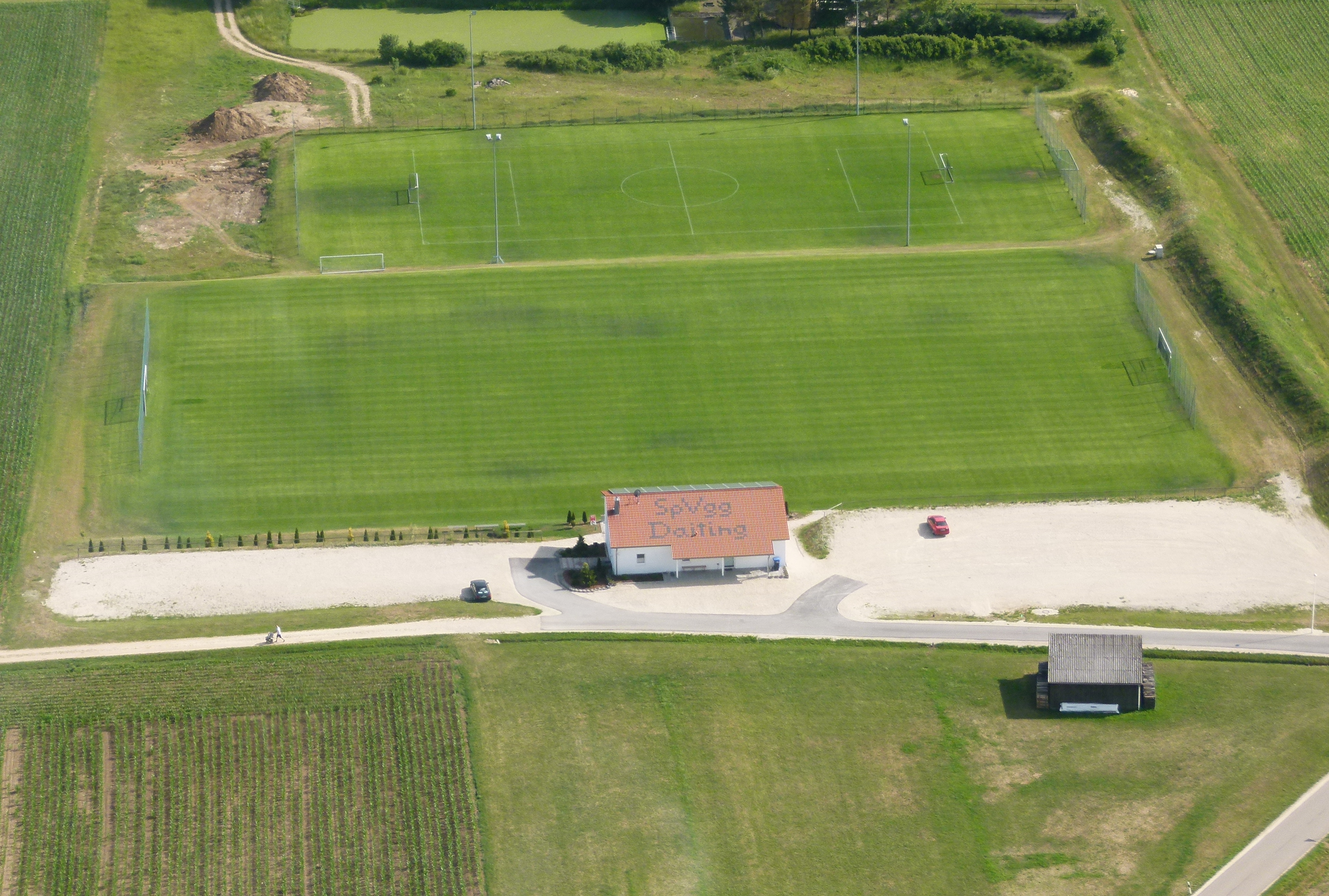 Aerial photograf of the sports ground in Daiting.